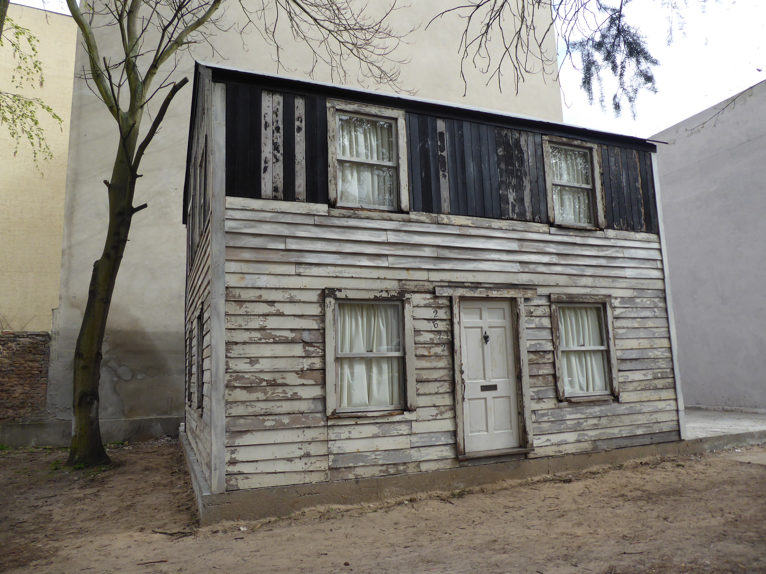 Gesundbrunnen Wriezener Straße Rosa-Parks-Haus